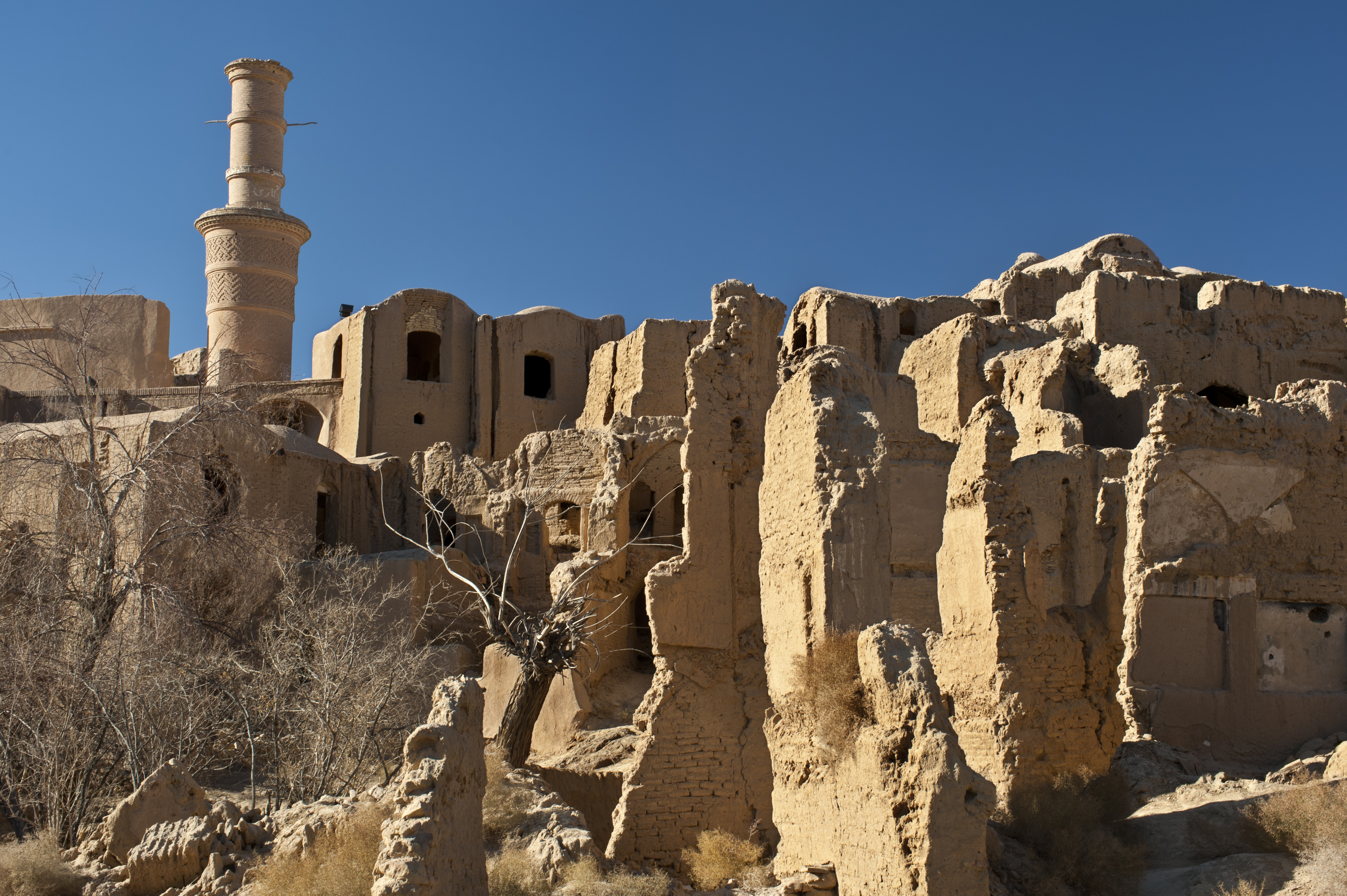 Kharanaq old city, Iran.